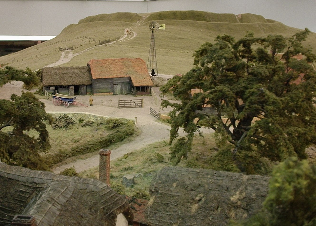 Photo by William J. Grimes